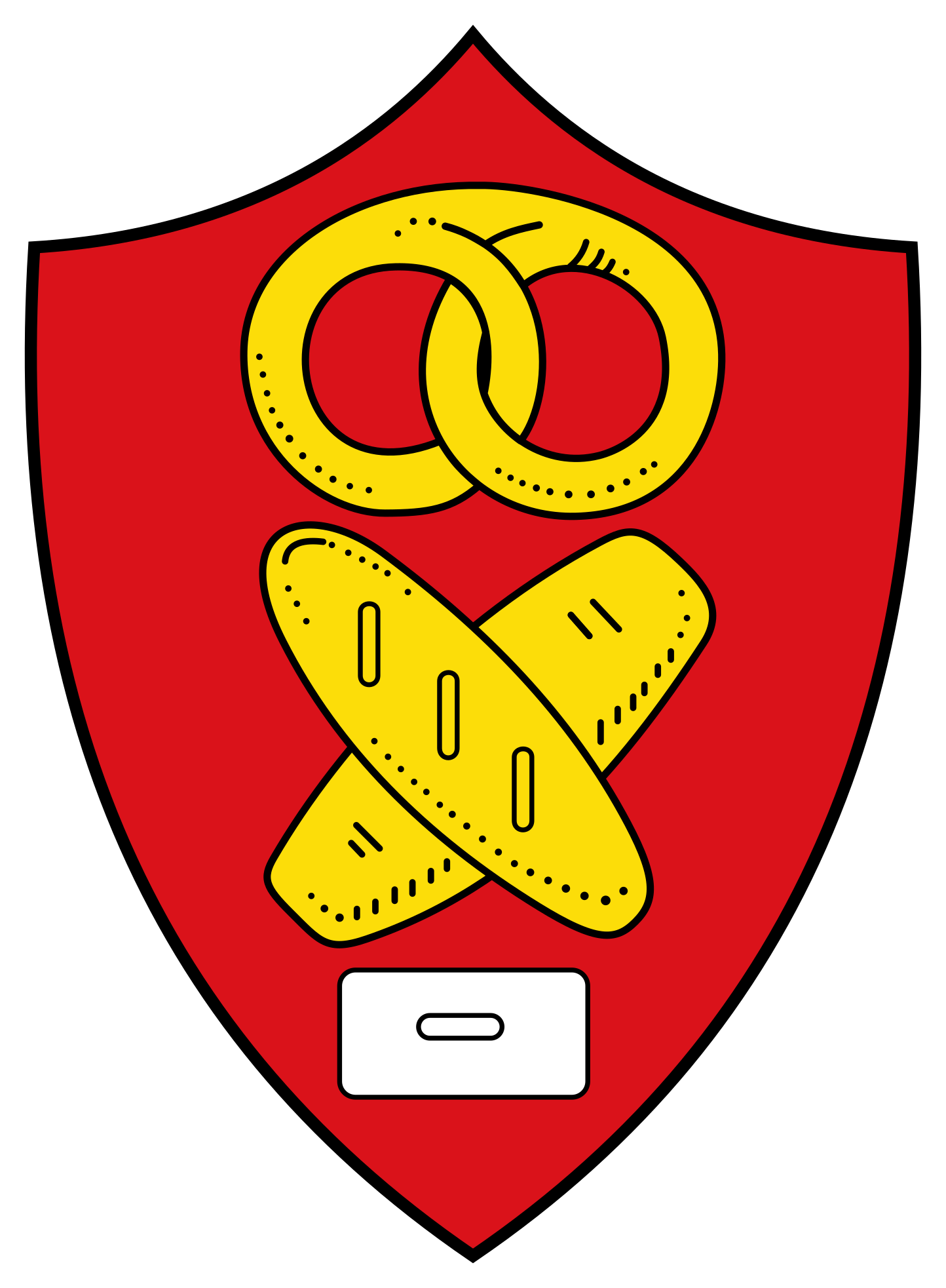 Old Coat of arms of Nieder-Ramstadt, now part of Muehltal, Hesse, Germany